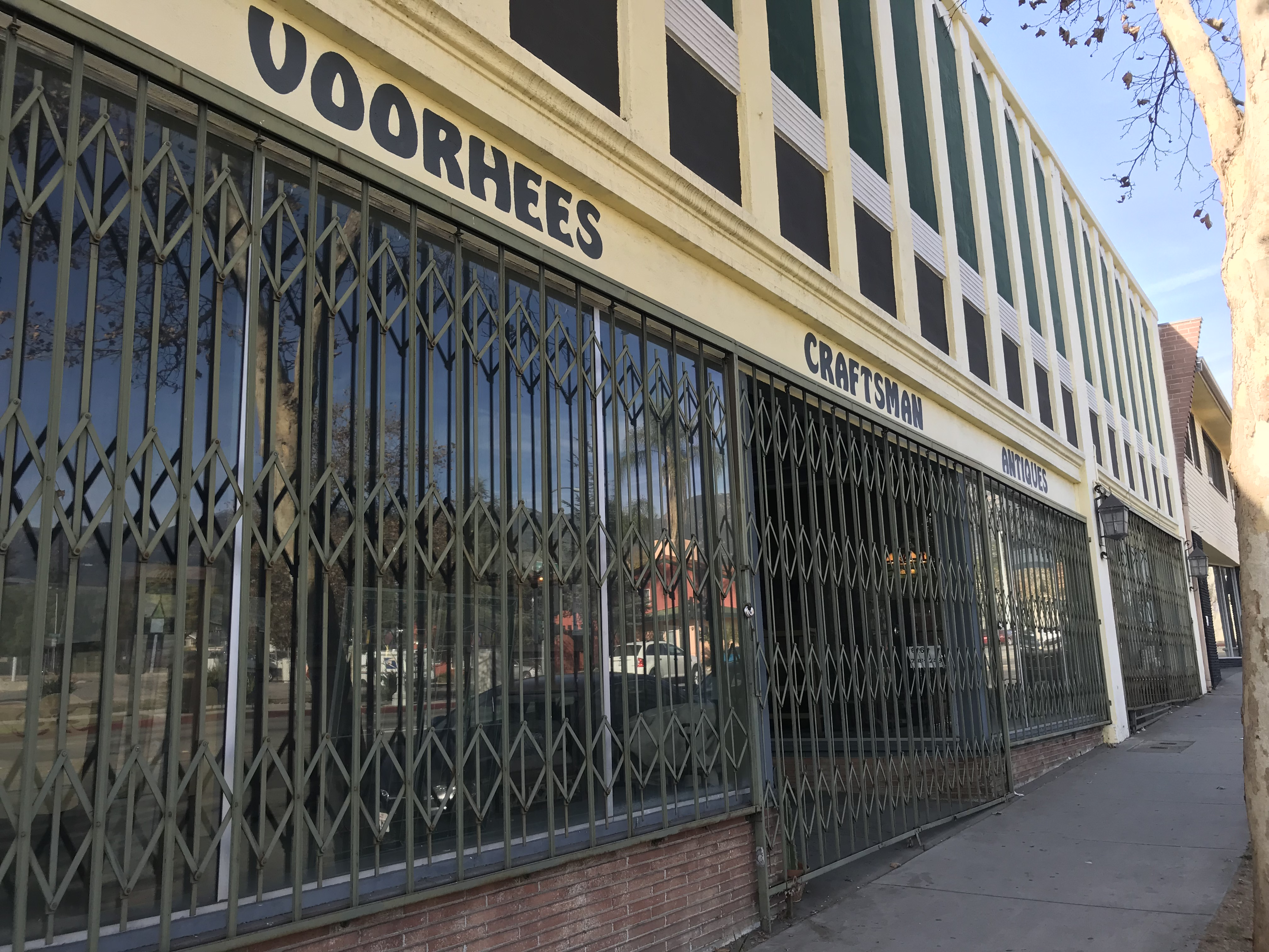 Antique shop facade, Lake Avenue, Pasadena, California